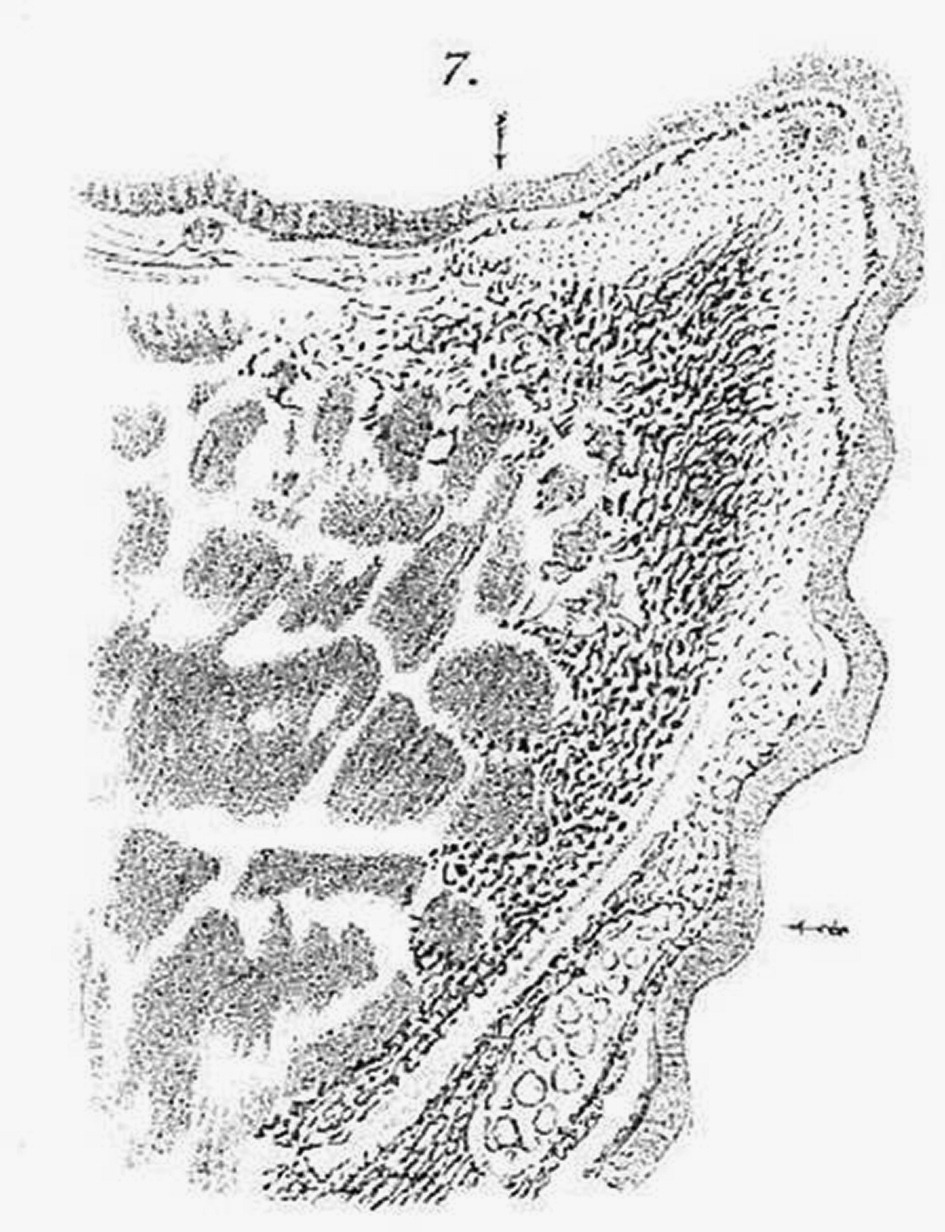 Cross-section of the vocal fold from Friedrich Reinke's 1897 work On the functional structure of the human vocal folds with special consideration of the elastic tissue. The arrows indicate the location of the superior and inferior arcuate lines, also described by Reinke.